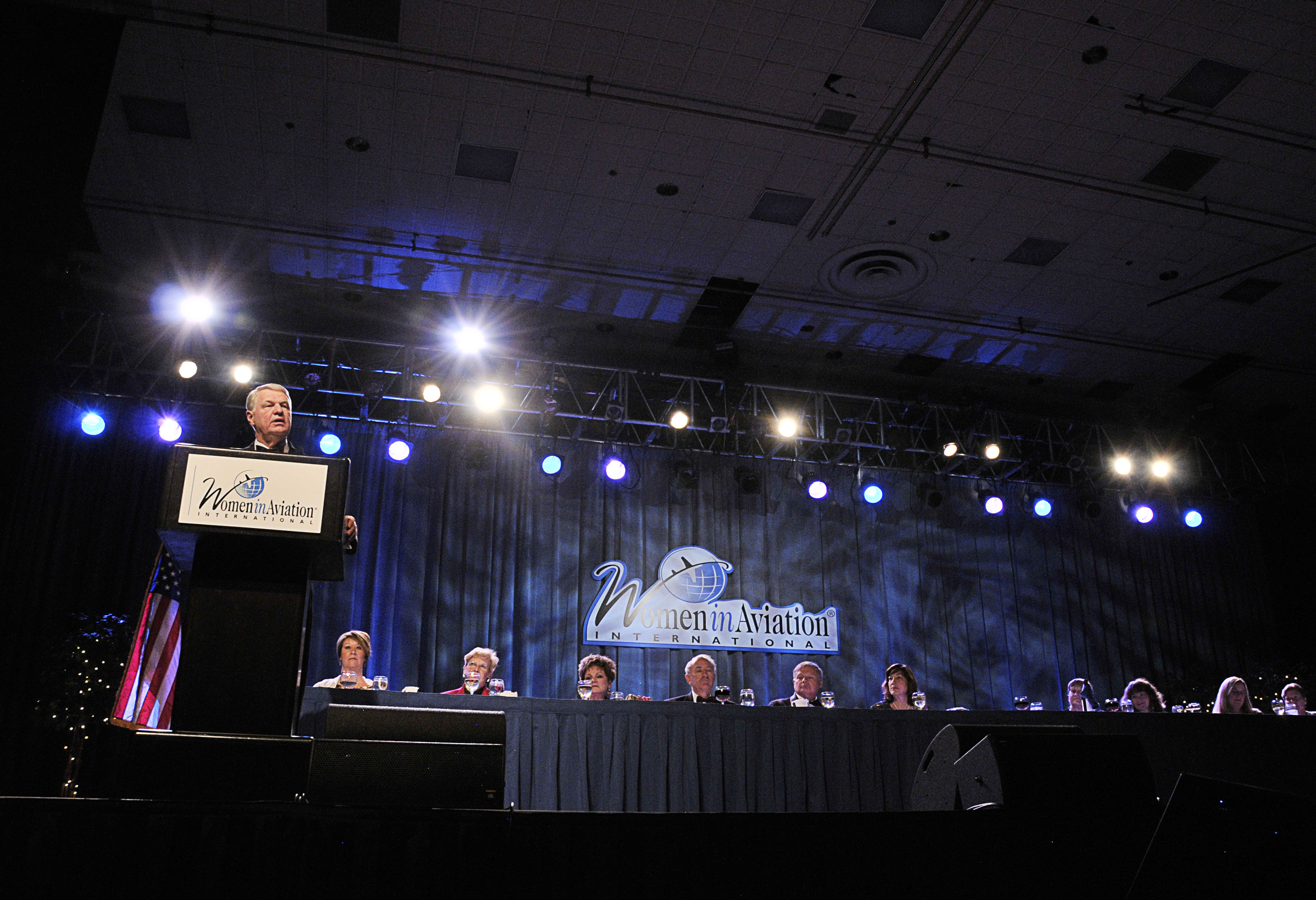 RENO, Nev. (Feb. 26, 2011) Chief of Naval Operations (CNO) Adm. Gary Roughead delivers the keynote address for the 2011 Scholarship Awards Banquet and Women in Aviation, International (WAI) Pioneer Hall of Fame Induction ceremony during the 22nd Annual WAI Conference in Reno, Nev. (U.S. Navy photo by Chief Mass Communication Specialist Tiffini Jones Vanderwyst/Released)